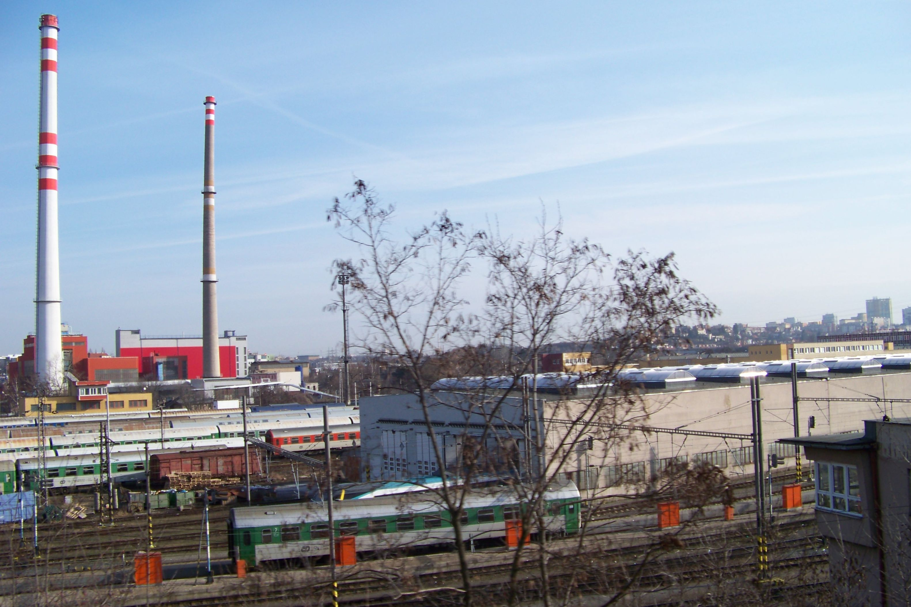 A hold yard and a heating plant. Praha-Michle, the Czech Republic.